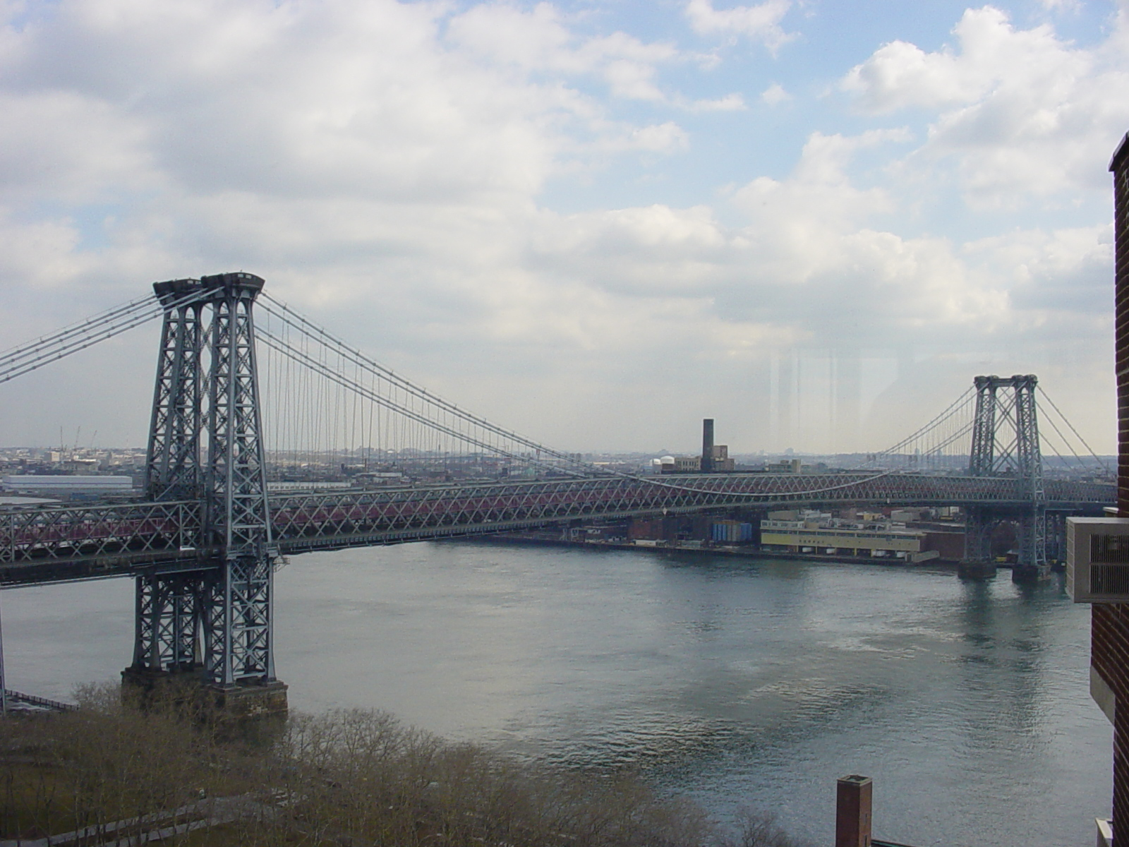 Williamsburg Bridge spanning over the East River in New York City.